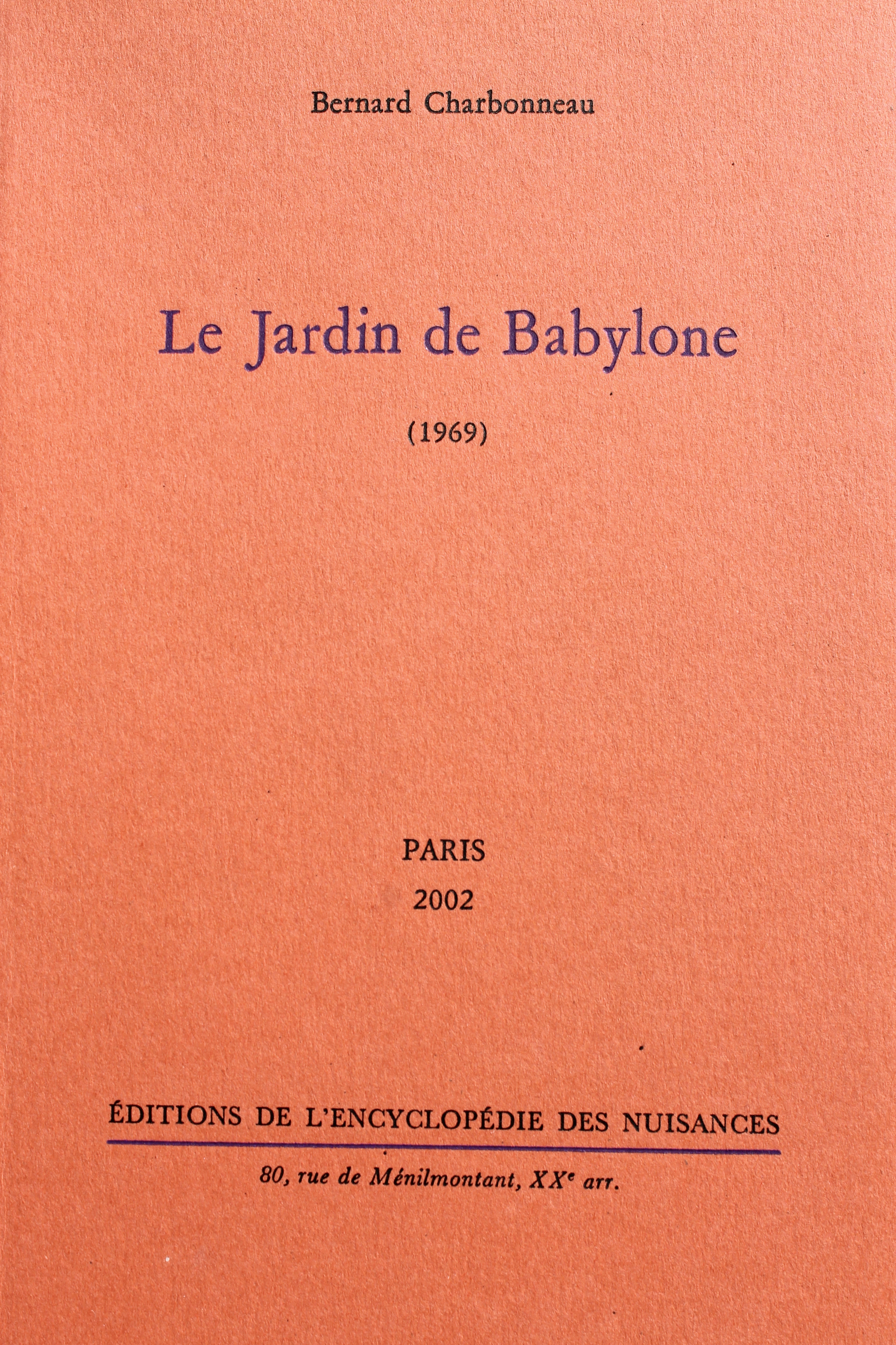 Le Jardín de Babylone, Bernard Charbonneau